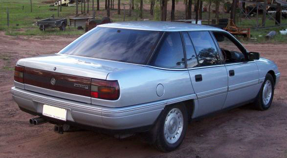 1990-1991 Holden Statesman (VQ) with Caprice alloy wheels, photographed in Australia.